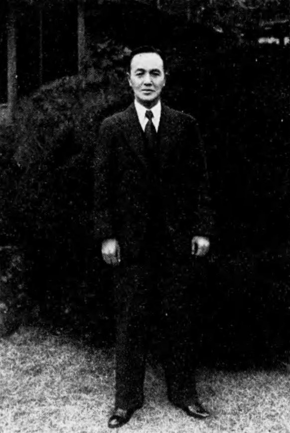 Sano Ryūichi, a Japanese Businessman in 1939.